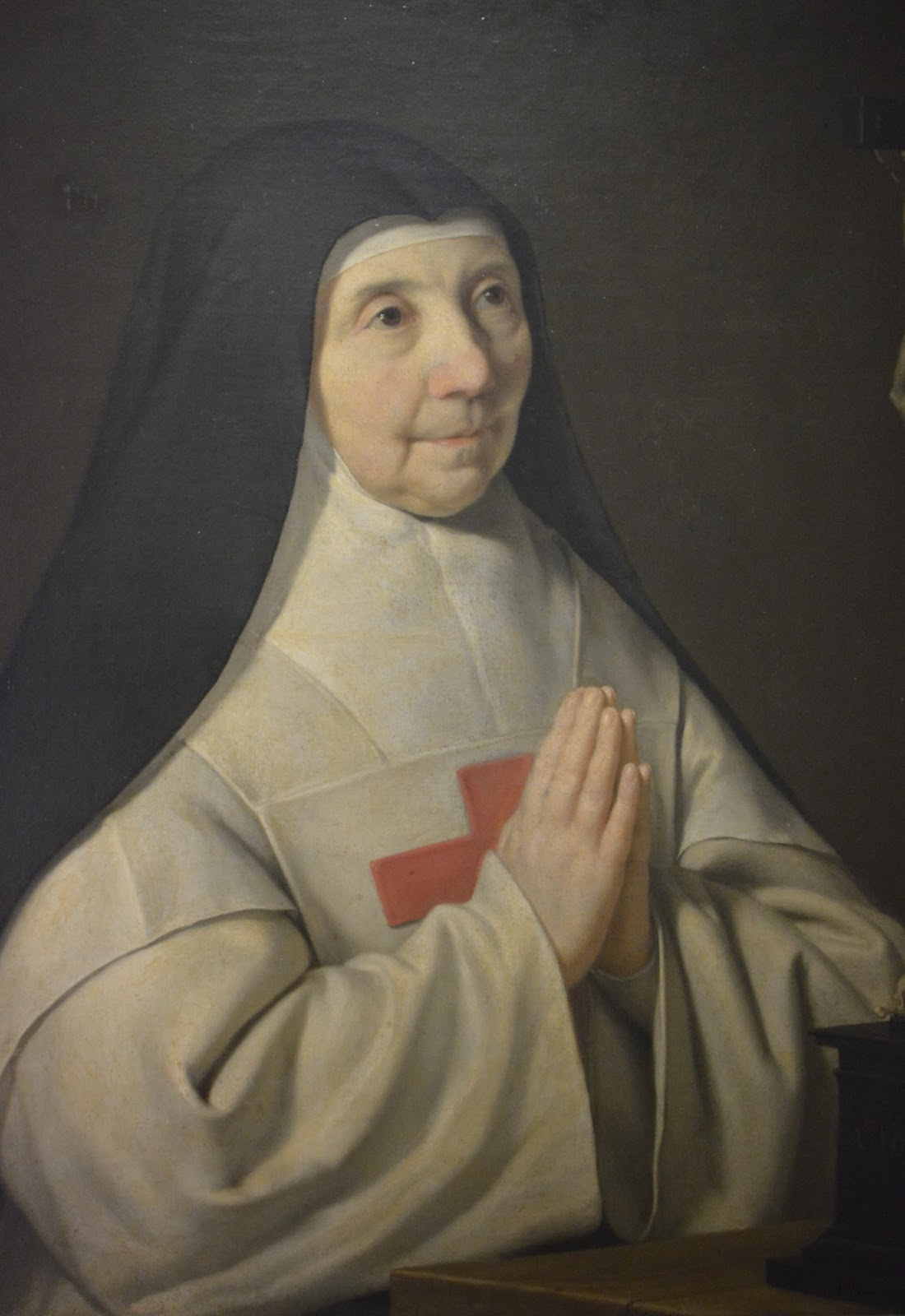 Agnès Arnauld, abbesse of Port-Royal-des-Champs Abbey